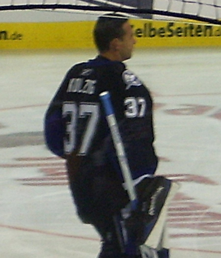 German hockey goalkeeper Olaf Kölzig in a jersey of the NHL team Tampa Bay Lightning